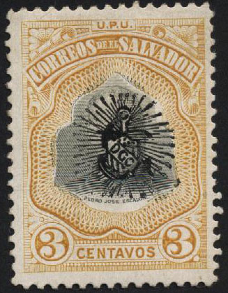 El Salvador SC350 printed on Glazed paper. Reprint perf 12.